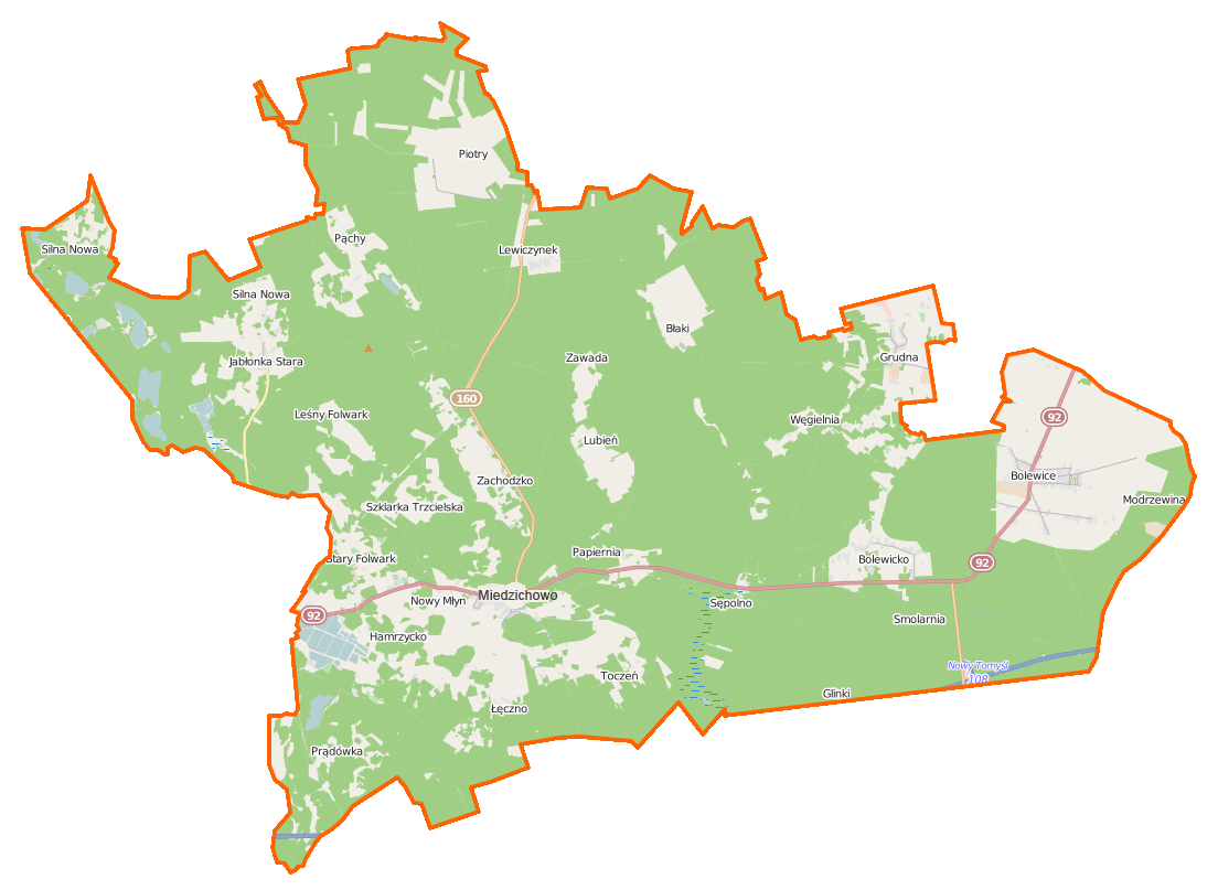 Map of Gmina Miedzichowo, Poland This map of Miedzichowo (gmina) was created from OpenStreetMap project data, collected by the community. This map may be incomplete, and may contain errors. Don't rely solely on it for navigation. Border coordinates52.488015.7980←↕→16.177052.3188